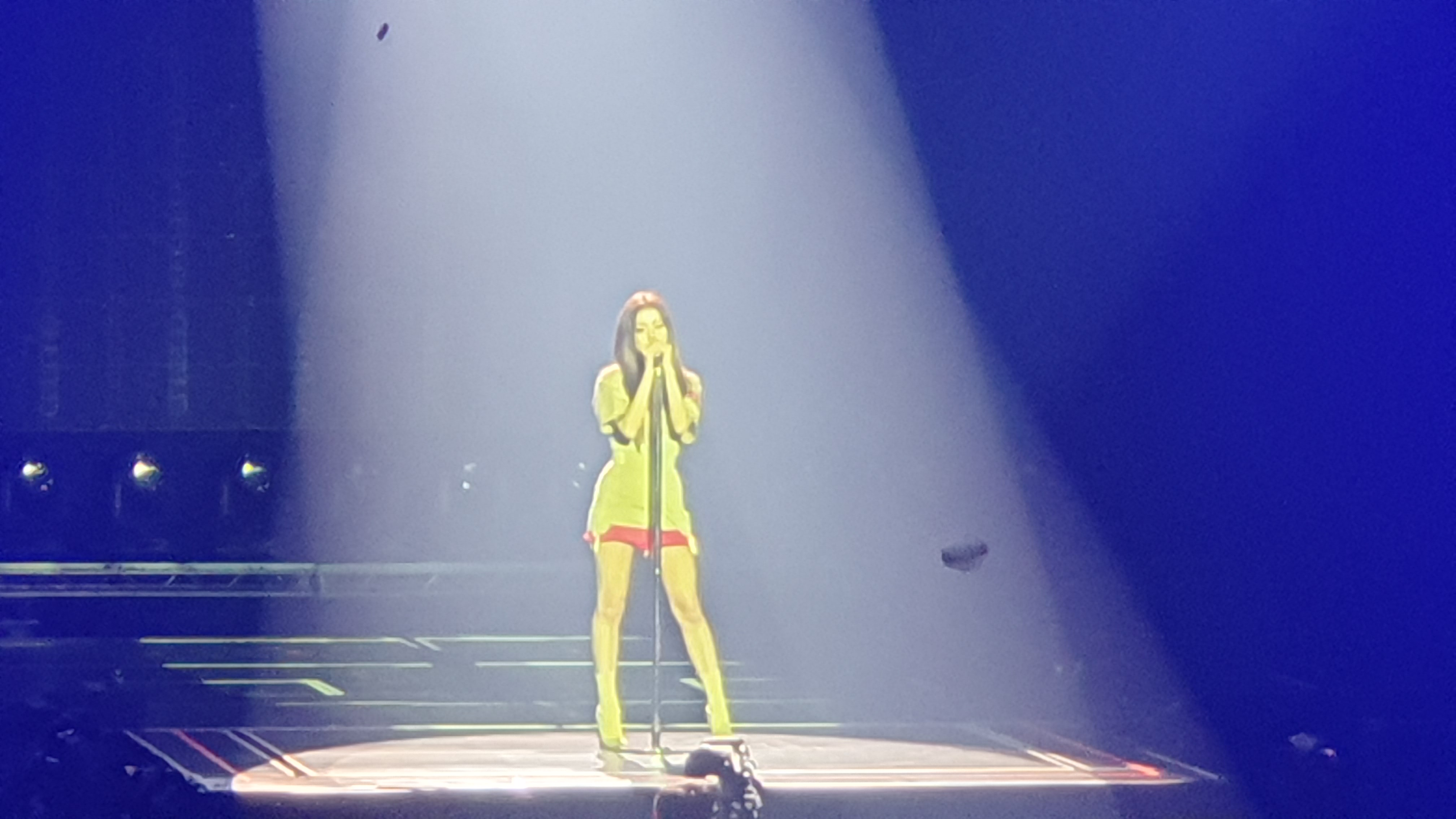 Blackpink Amsterdam concert 2019 WORLD TOUR with KIA [IN YOUR AREA]